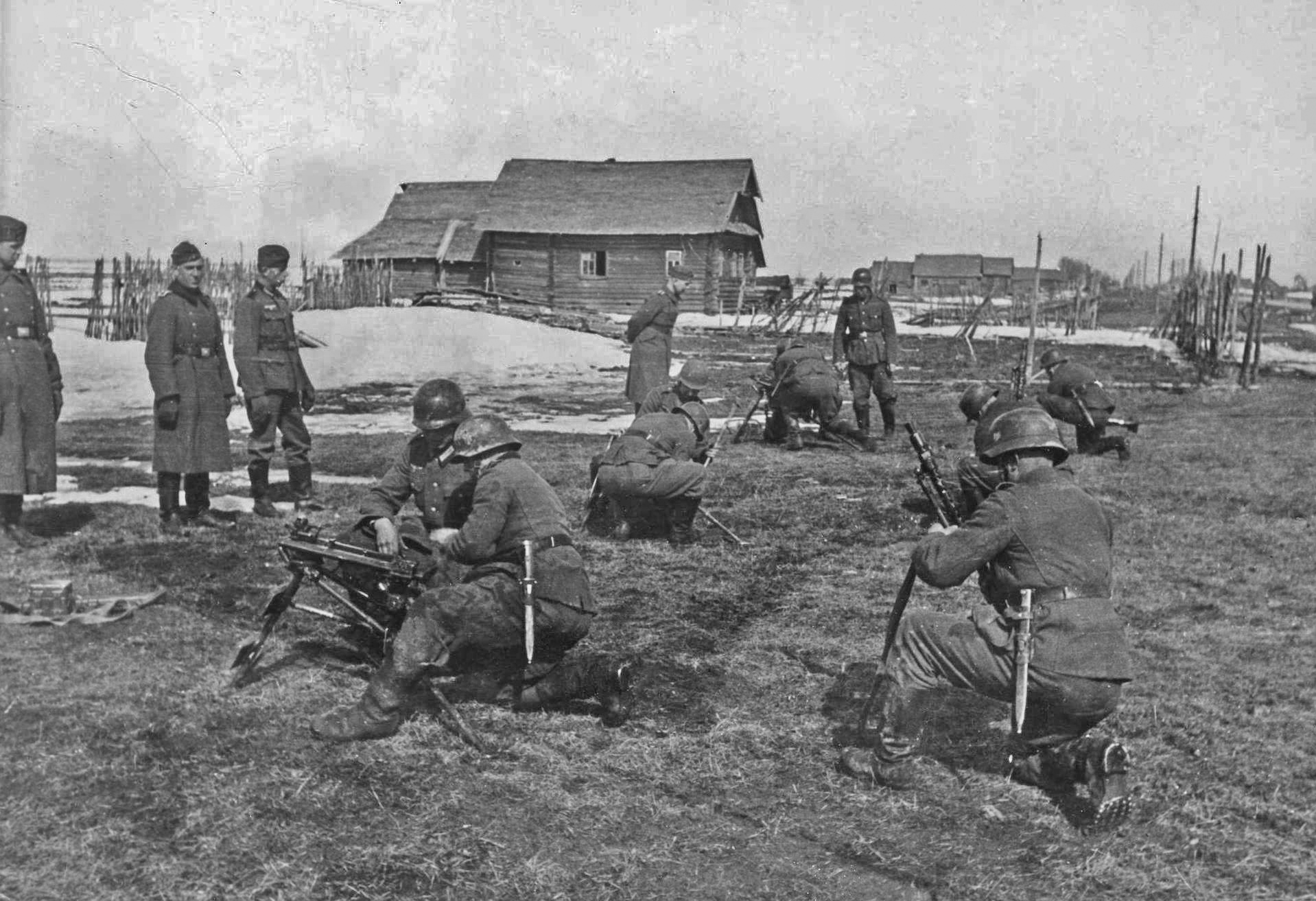 Replacements for the division of Spanish volunteers are trained in the rearguard on the use of heavy machine guns.